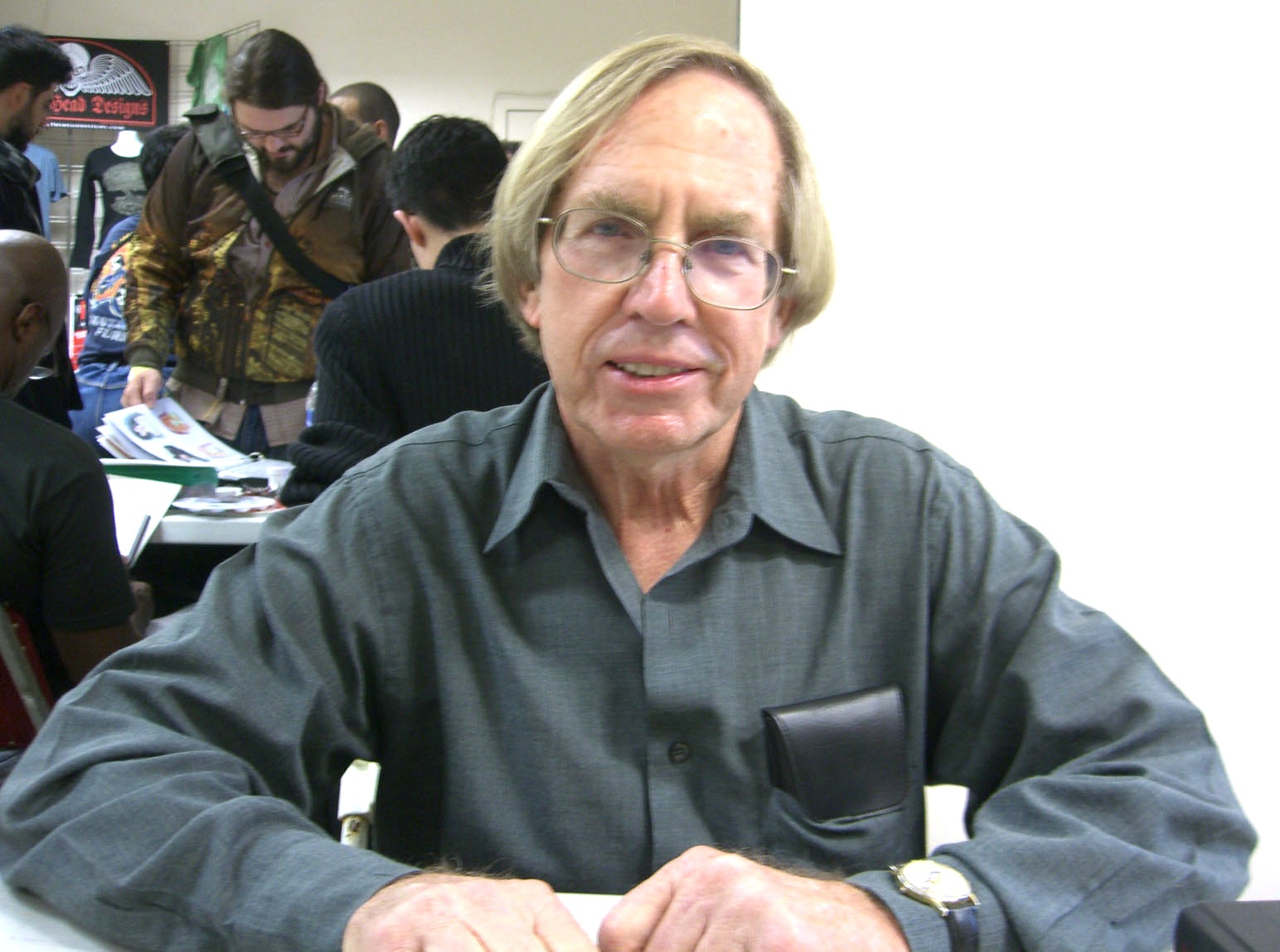 Comic book creator Roy Thomas at the November 2008 Big Apple Convention in Manhattan. This photo was created by Luigi Novi. It is not in the public domain, and use of this file outside of the licensing terms is a copyright violation.